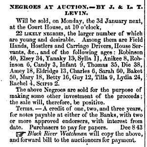 Advertisement for a slave sale, from 1853 book "A key to Uncle Tom's cabin"; seller Jacob Levin (J. Levin and L. T. Levin)